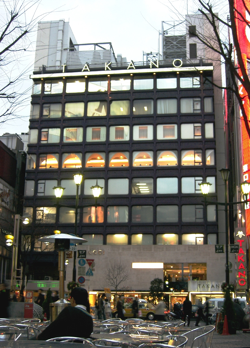 Shinjuku Takano building in Shinjuku, Tokyo.